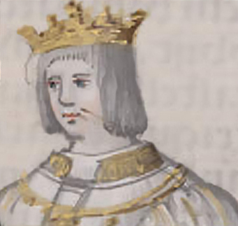 John II of Castile